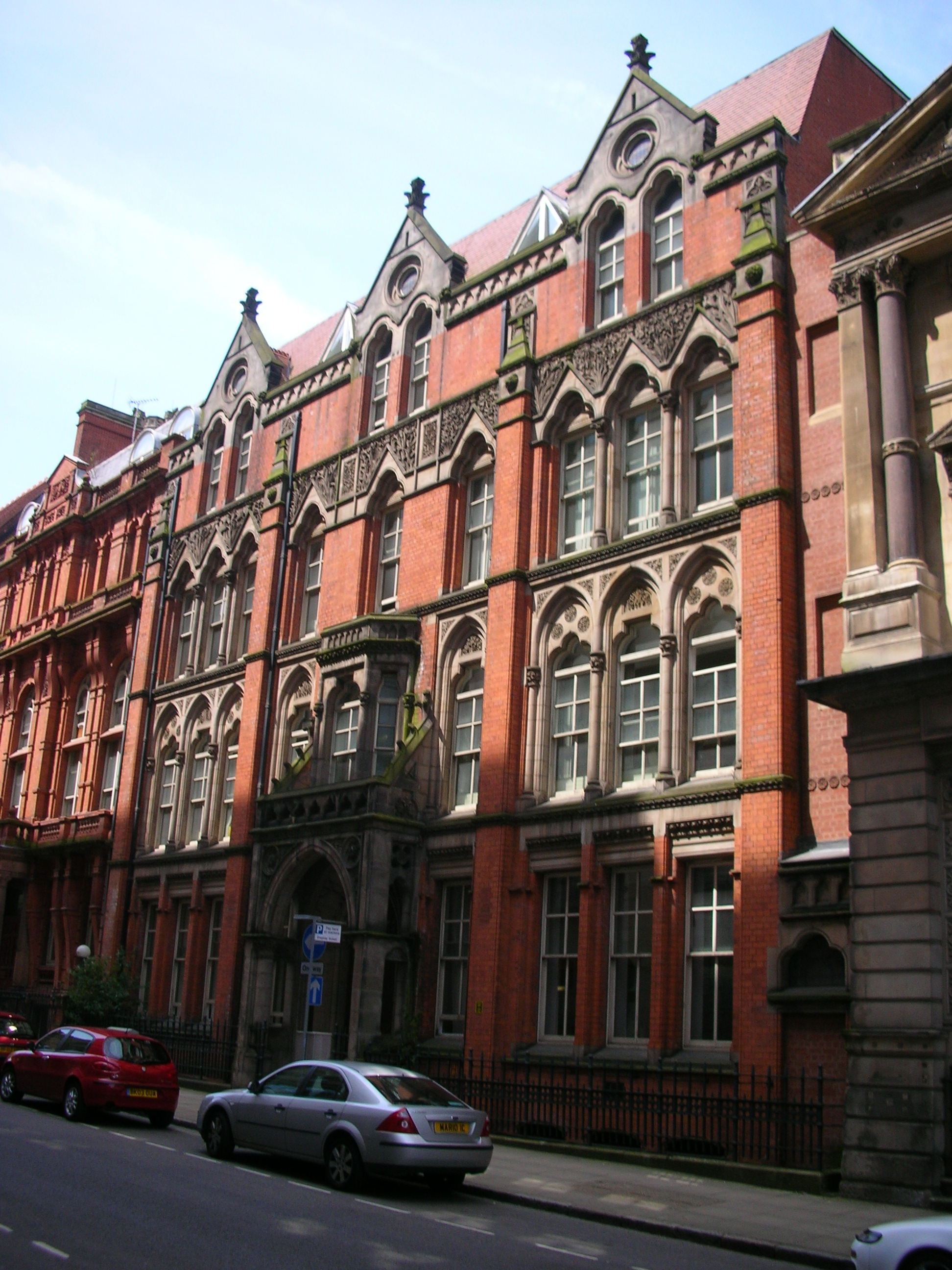 98 Edmund Street, Birmingham, England. Grade II* listed former School Board Office, 1875, Martin & Chamberlain.